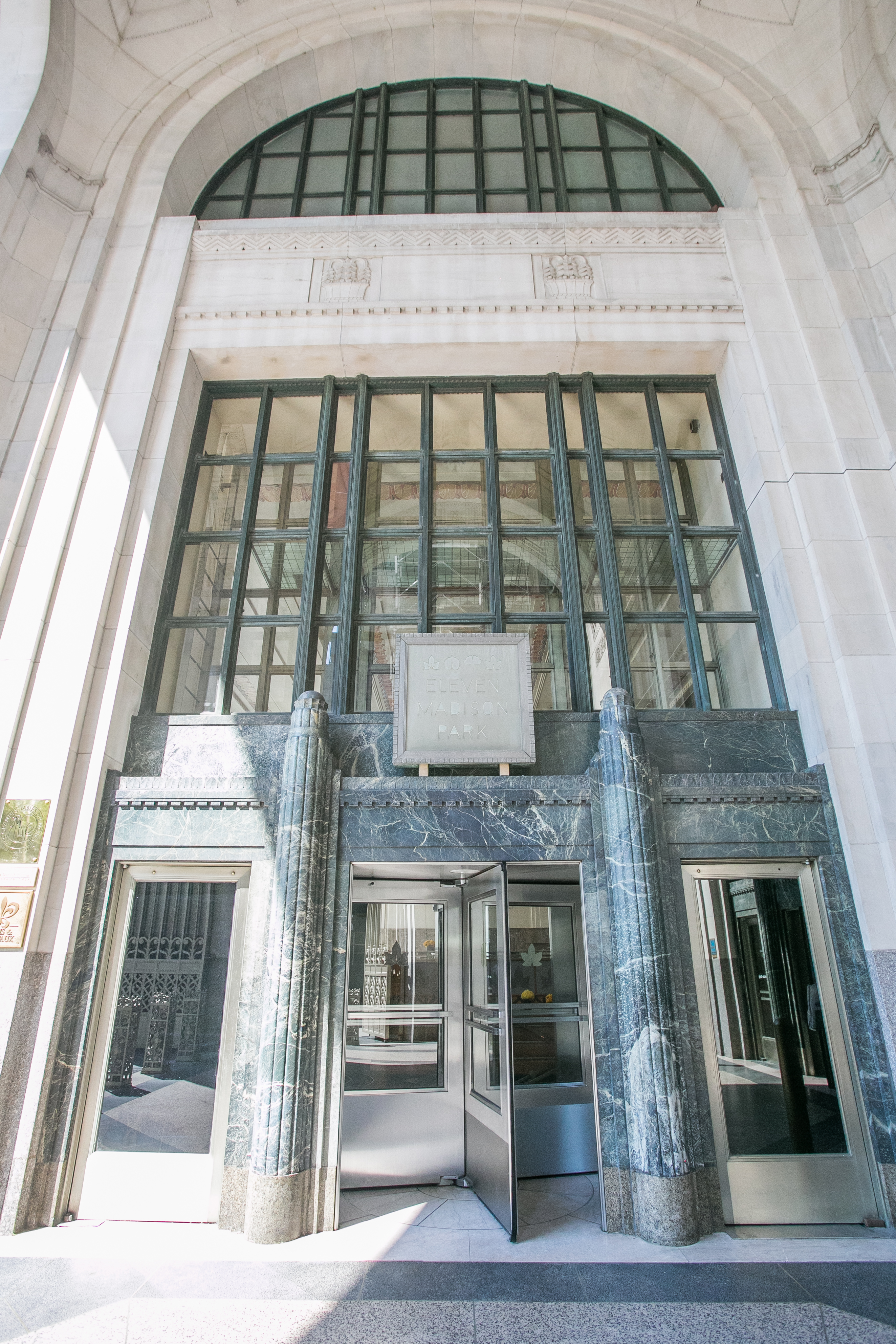 Eleven Madison Park, New York City Date Visited: June 14, 2013